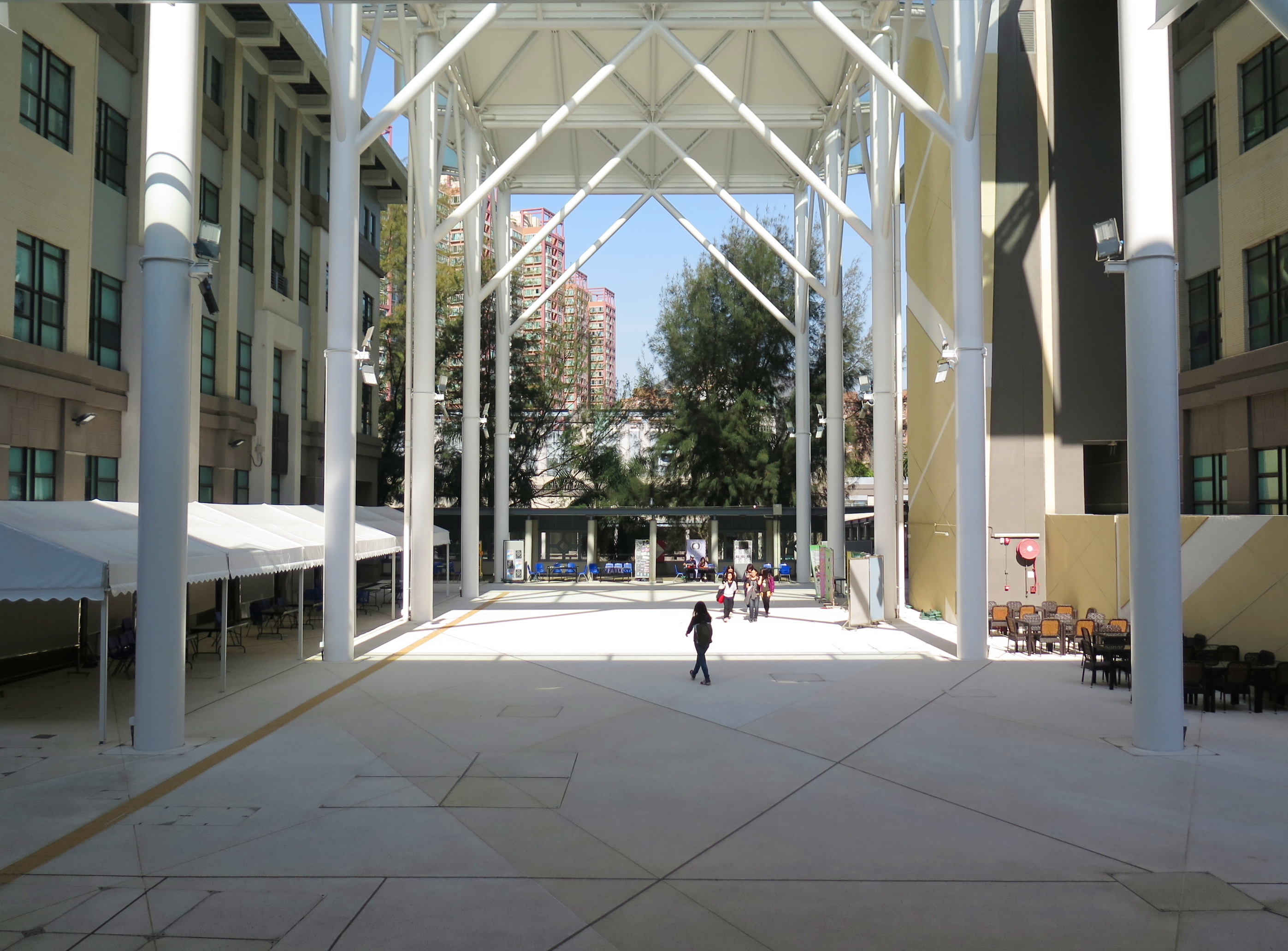 Lingnan University Skylight Plaza